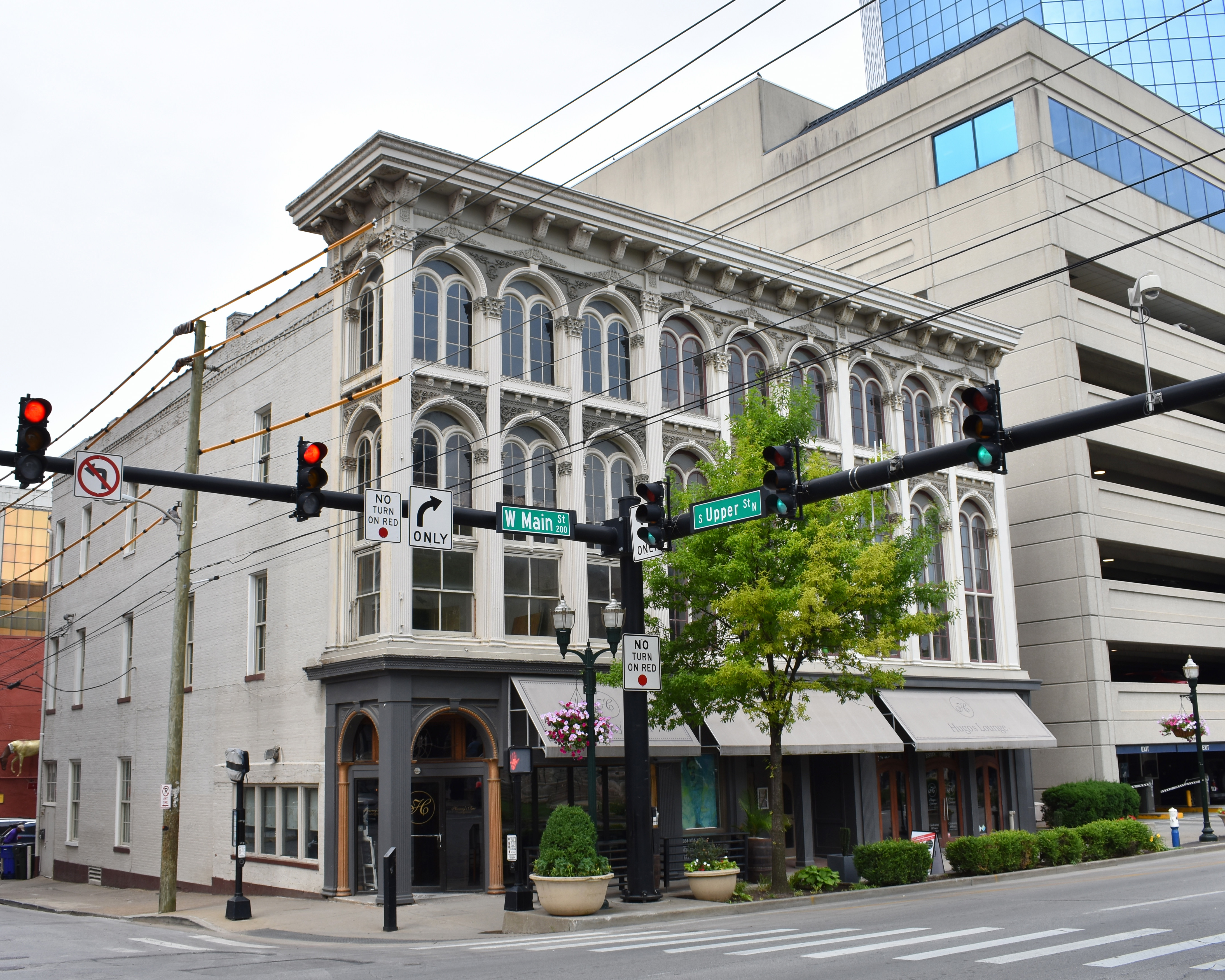 The McAdams and Morford Building (1849) in Lexington, Kentucky, is listed on the National Register of Historic Places.